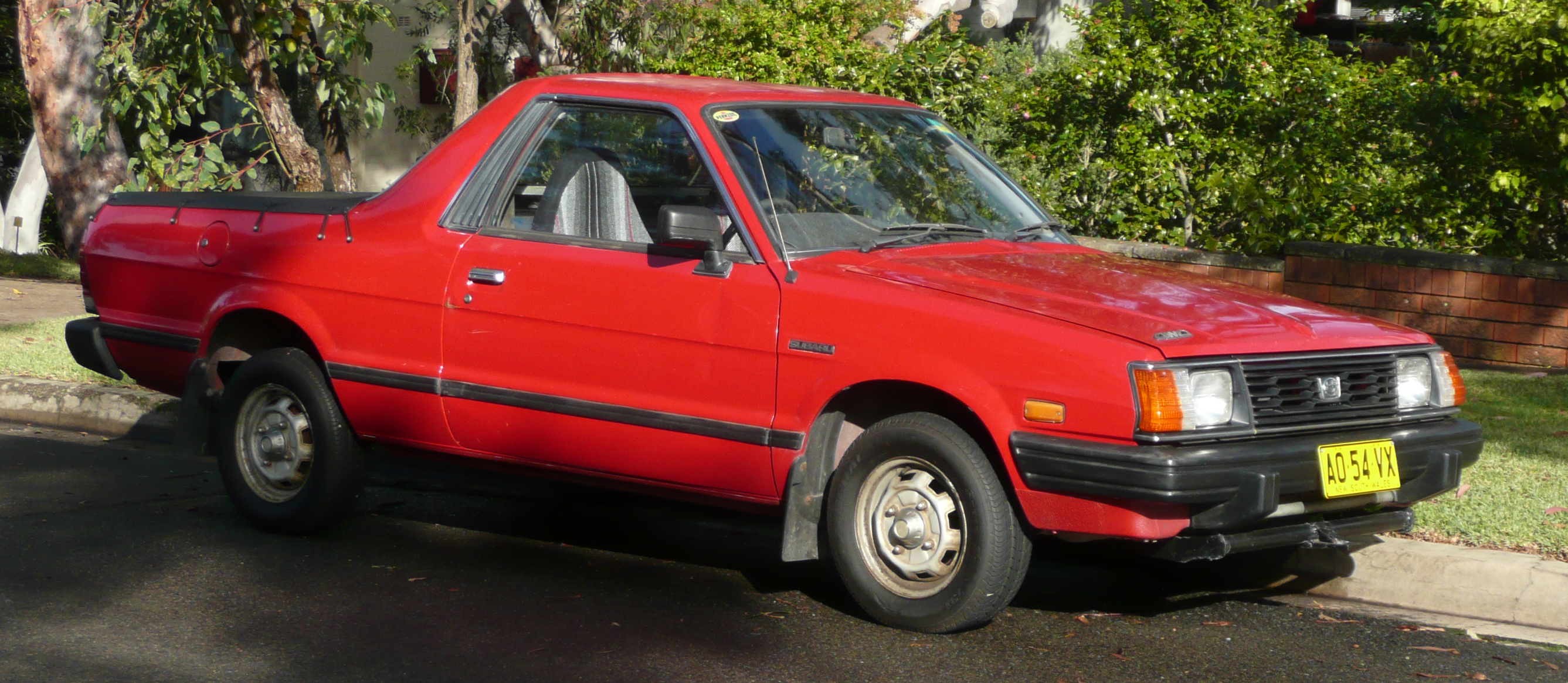 1989 Subaru Brumby utility. Photographed in Cronulla, New South Wales, Australia.